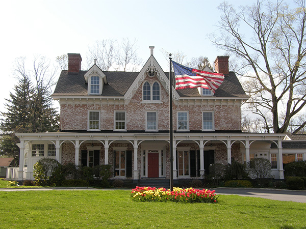 The Van Cortlandt Upper Manor House was built by Pierre Van Cortlandt. Photo taken May, 2014.